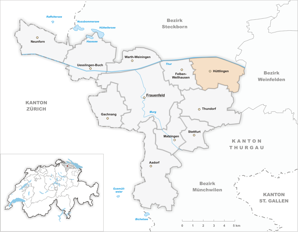 Municipality Hüttlingen